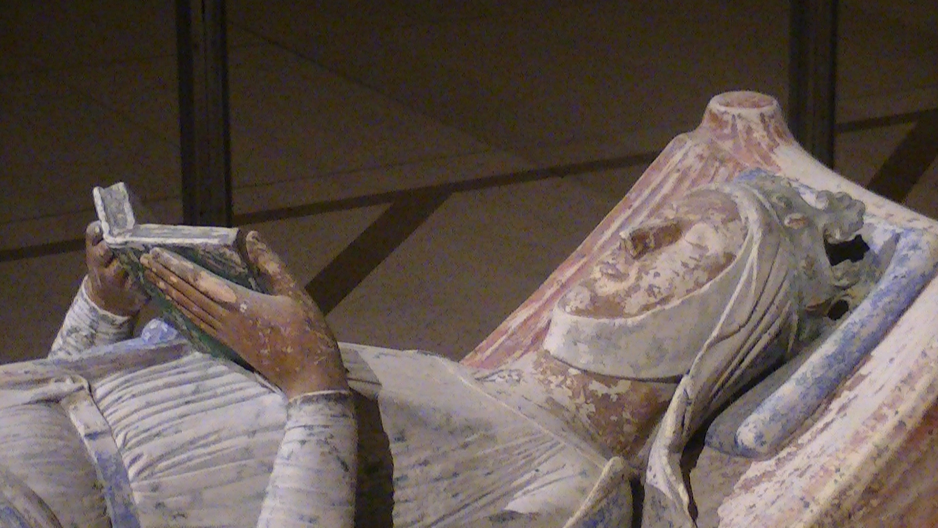 Effigy of Eleanor of Aquitaine in the church of Fontevraud Abbey